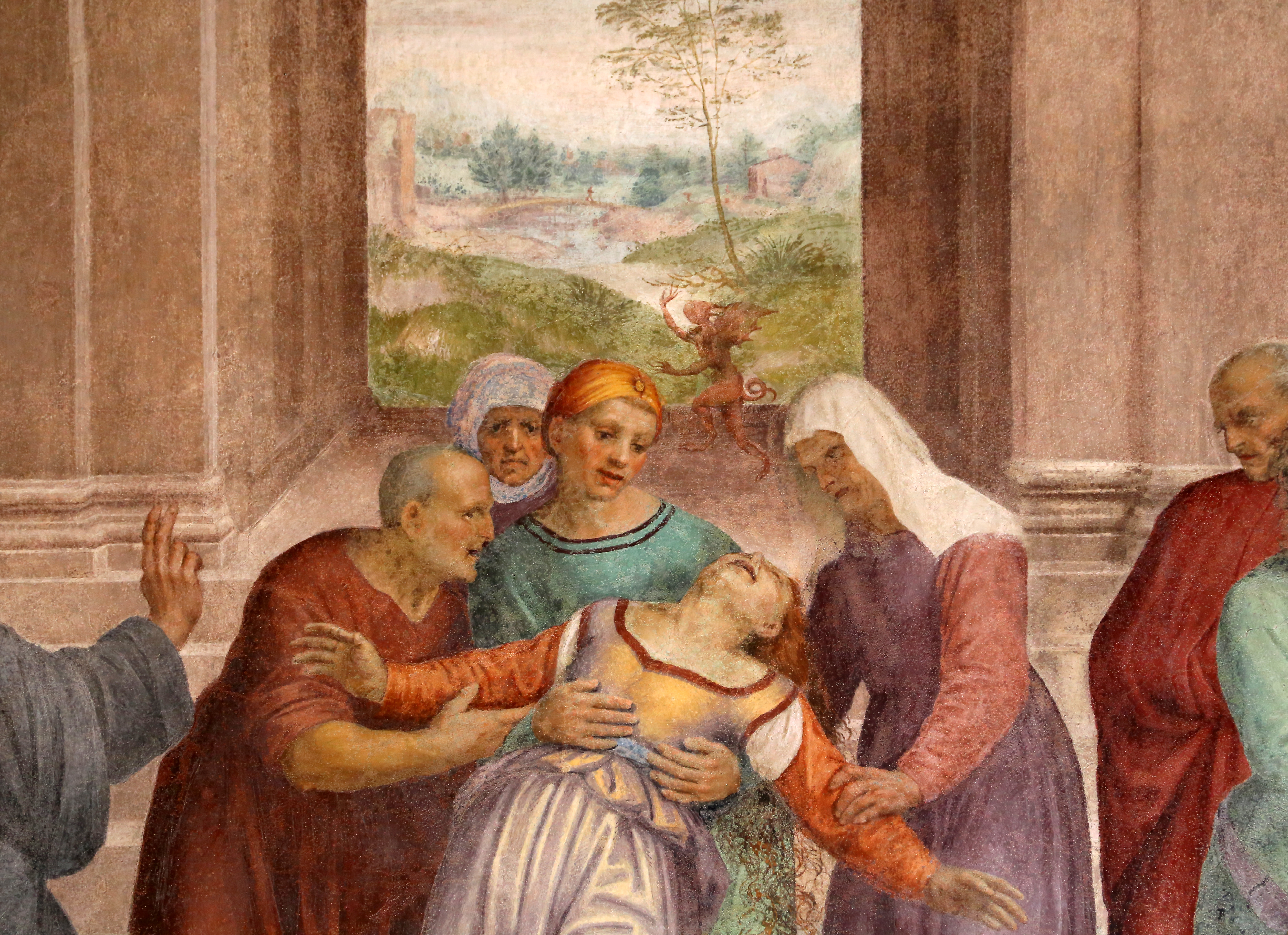 Liberation of the Woman possessed by the Devil by Andrea del Sarto